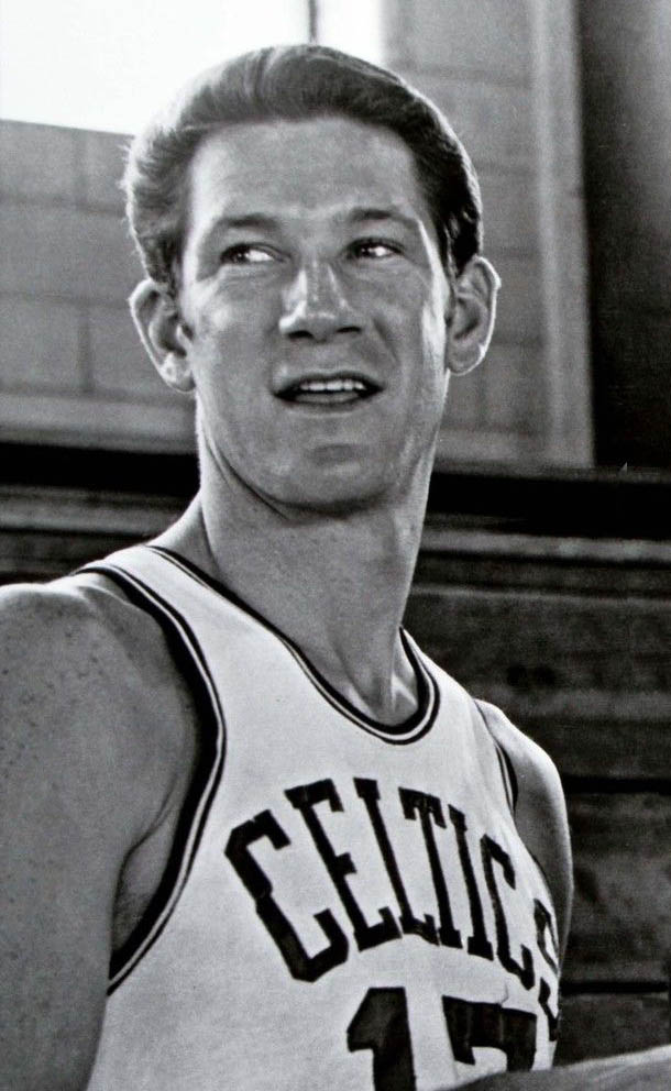 Former Boston Celtics player, John Havliceck, photographed in the 1960s.